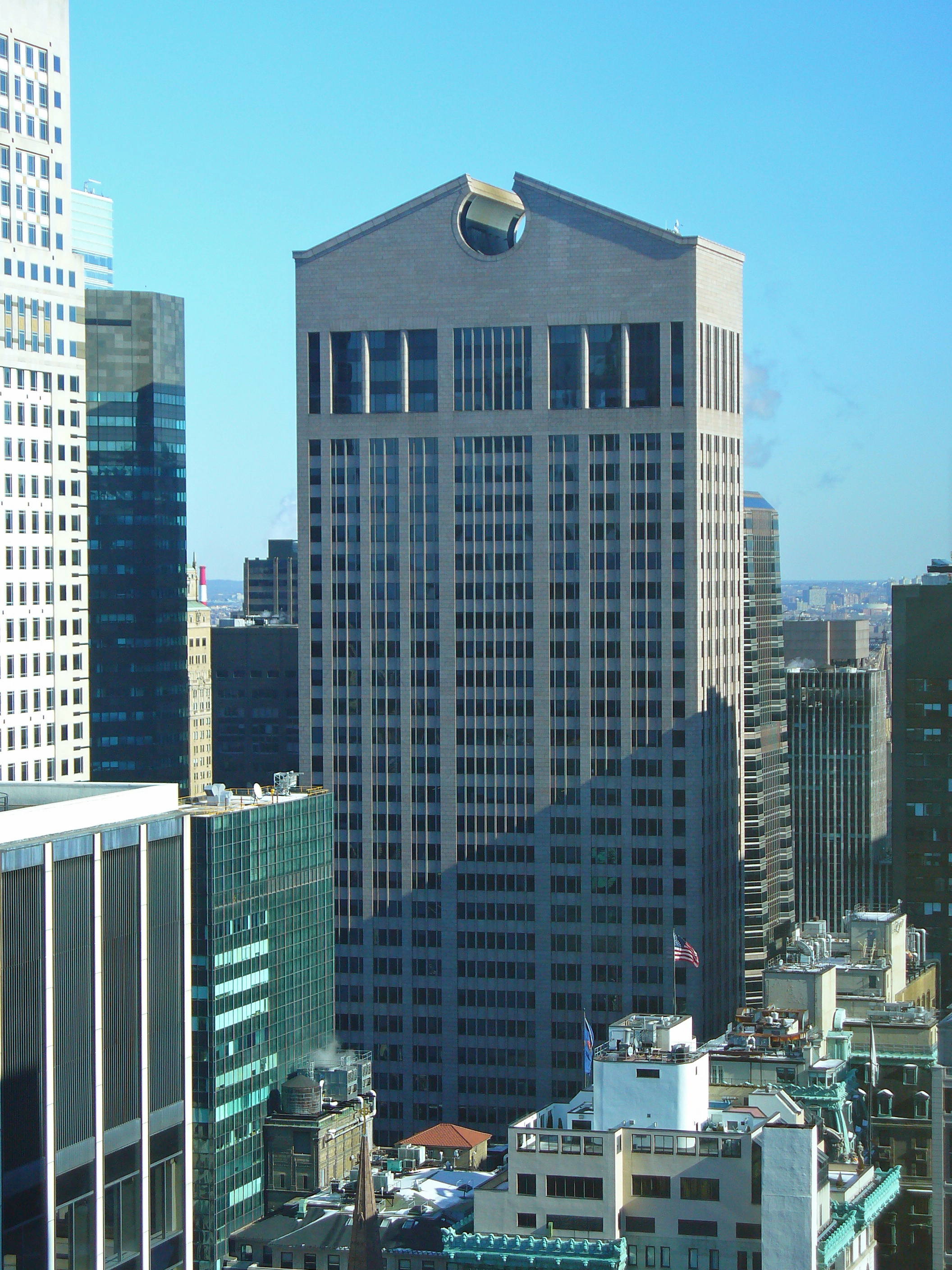 Sony Building New York